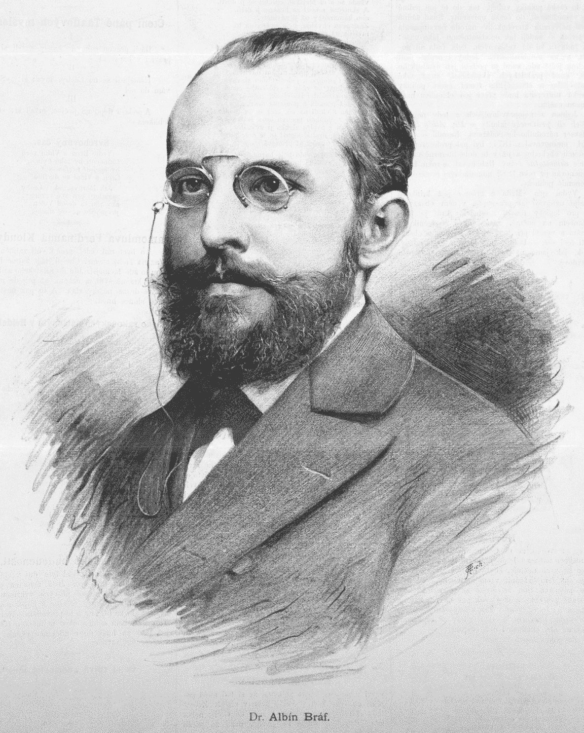 Portrait of Albín Bráf, Czech lawyer and economic theorist.